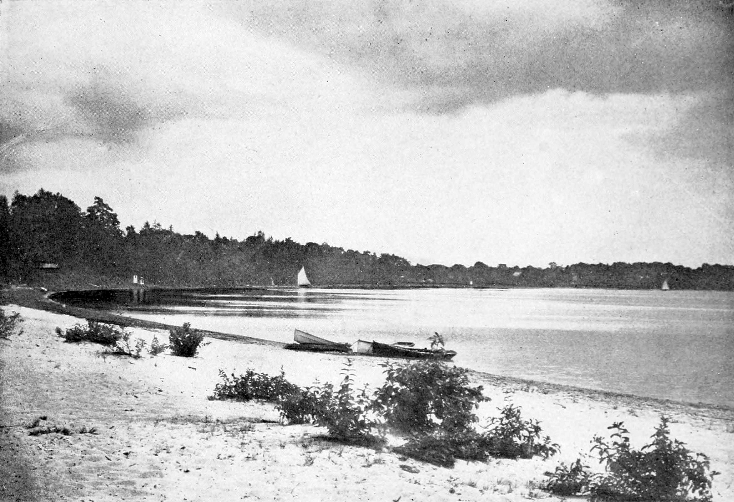 The North Beach at Lake Ronkonkoma, New York. Title: Unique Long Island. (camera sketches) Year: 1901 (1900s) Authors: Long Island Railroad Company Subjects: Publisher: (New York, Blanchard press Text Appearing Before Image: Rounding the Curve.BETH PAGE. Text Appearing After Image: The North lieiich.LAKE HONKONKOMA.